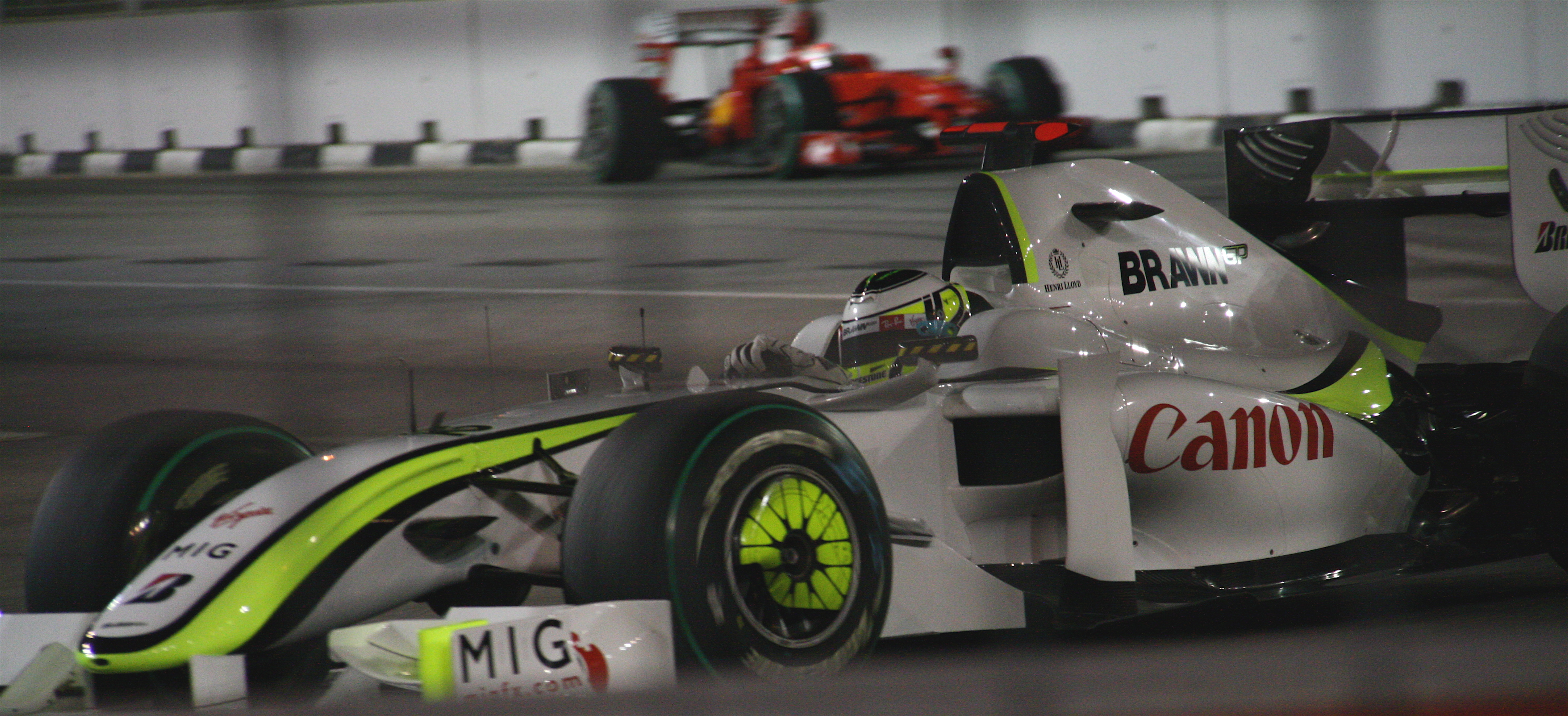 Jenson Button driving for Brawn GP at the 2009 Singapore Grand Prix.